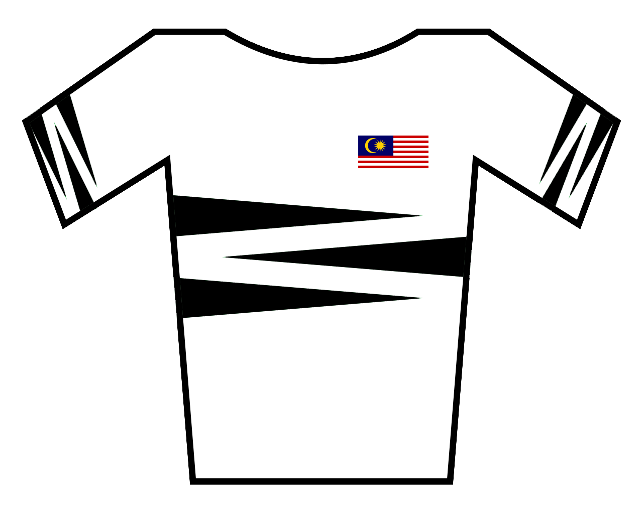 National champion cycling jersey of Malaysia